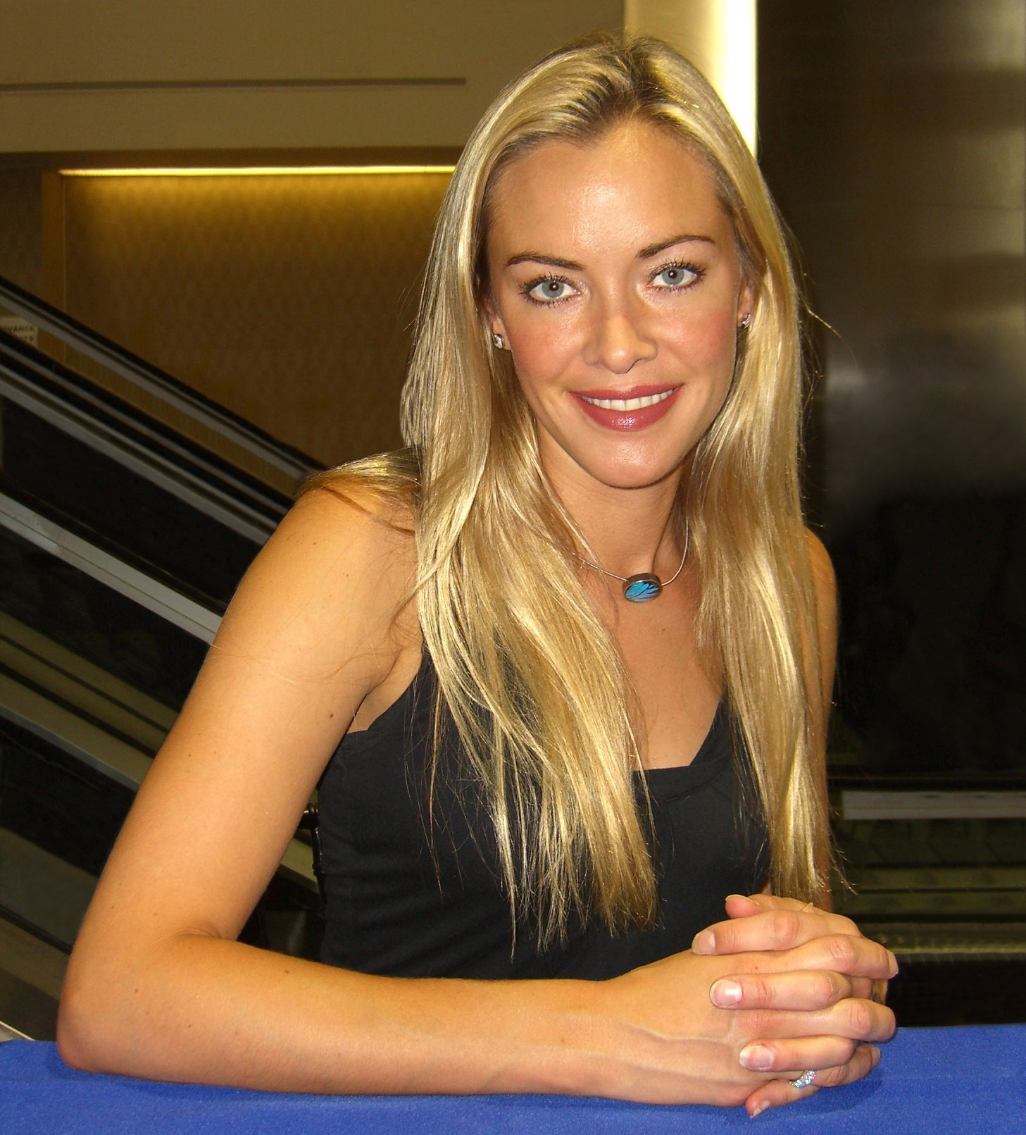 Actress Kristanna Loken at the Big Apple Convention in Manhattan, May 21, 2011. This photo was created by Luigi Novi. It is not in the public domain, and use of this file outside of the licensing terms is a copyright violation.